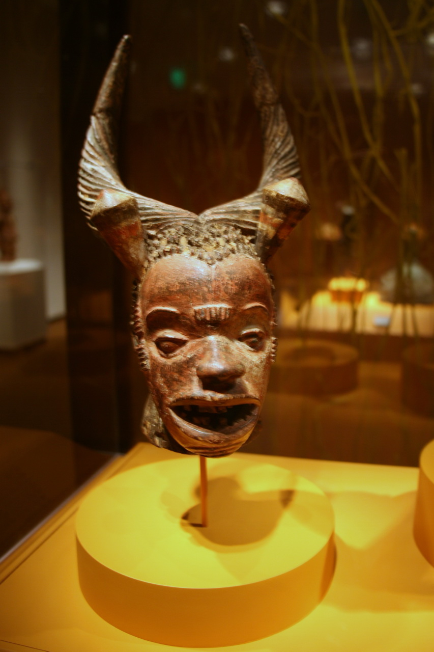 Mask, Boki peoples, middle Cross River region, Nigeria, Late 19th to early 20th century, Wood, paint, metal The degree of realism and expressiveness captured on this pigment-covered crest mask links it stylistically to the skin-covered masks found among several Cross River groups. Like them, it probably was used by a traditional warrior or age-grade association. The dramatically curving horns probably represent a hairstyle and the conical objects at their base may be hair ornaments. (National Museum of African Art)